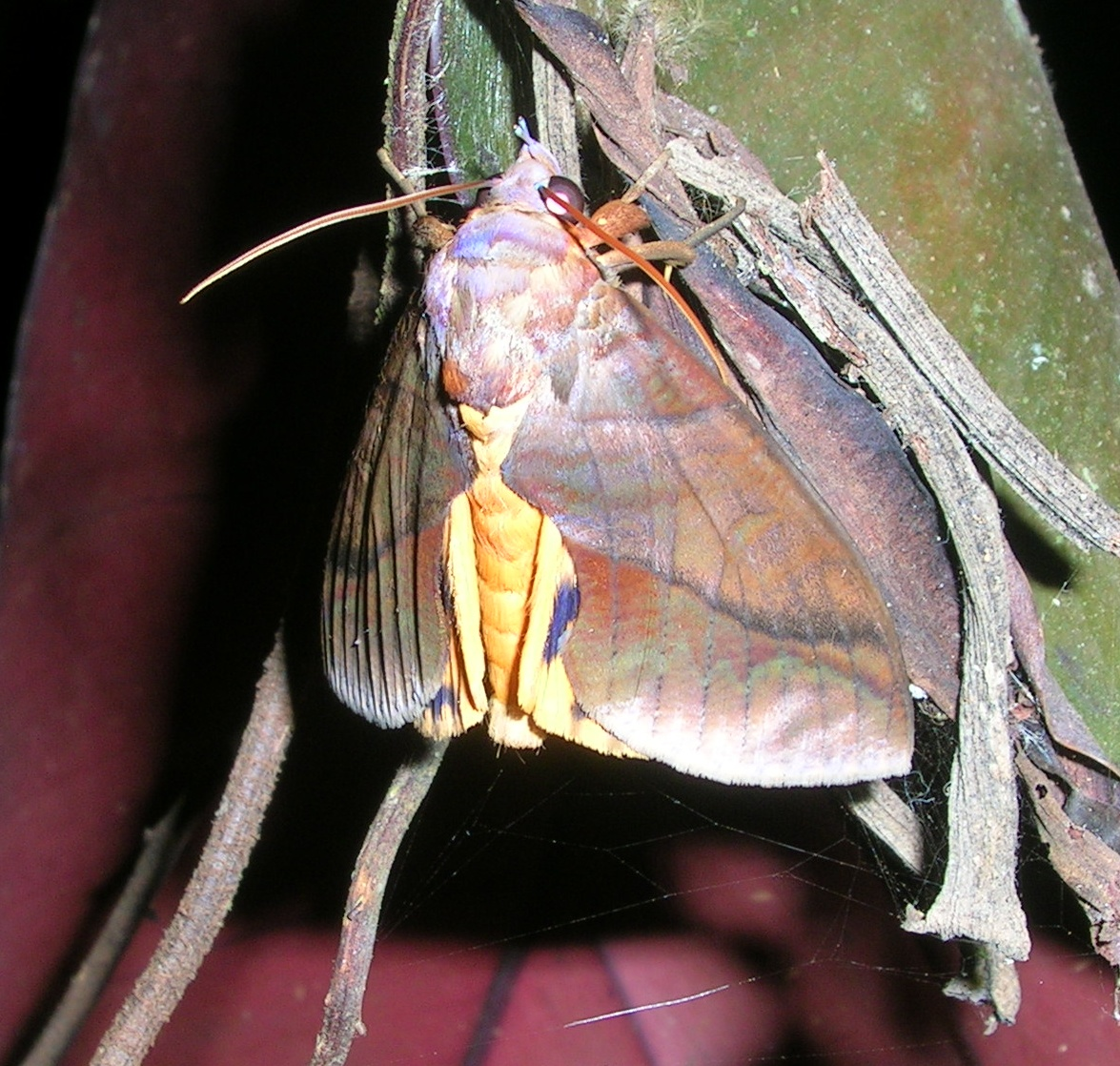 Eudocima phalonia. Wynaad, Kerala. Determination from photograph by Ian Kitching, NHM UK